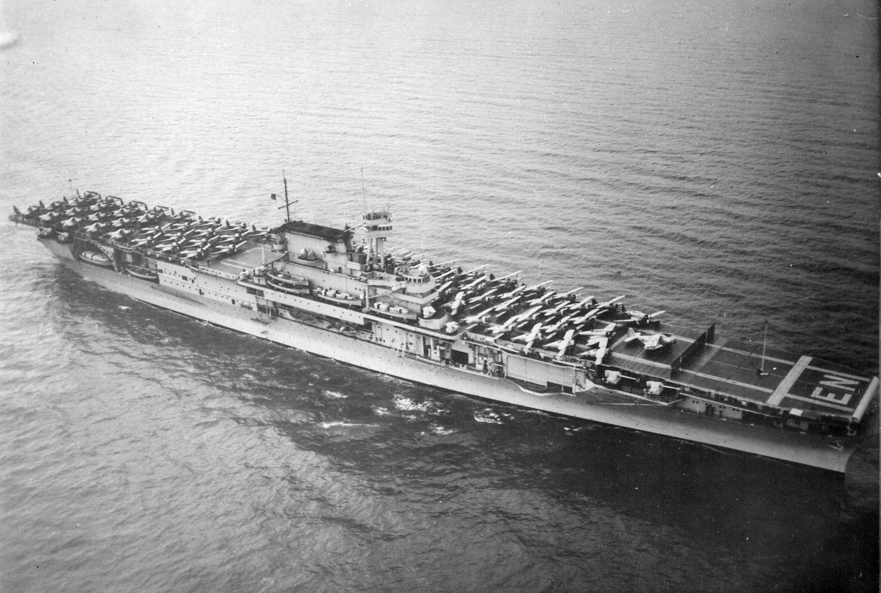 Th U.S. Navy aircraft carrier USS Enterprise (CV-6) underway, on 12 April 1939.